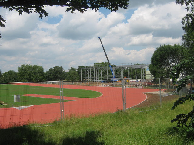 Creation of Medway Park The Black Lion sports centre in Gillingham is now being turned into Medway Park an international multi-sport facility. A new athletics track has been created now a new sports hall, gymnasium and martial arts centre is next. For more details The Black Lions Sports Centre is to the right, and will de upgraded with better swimming and changing facilities.